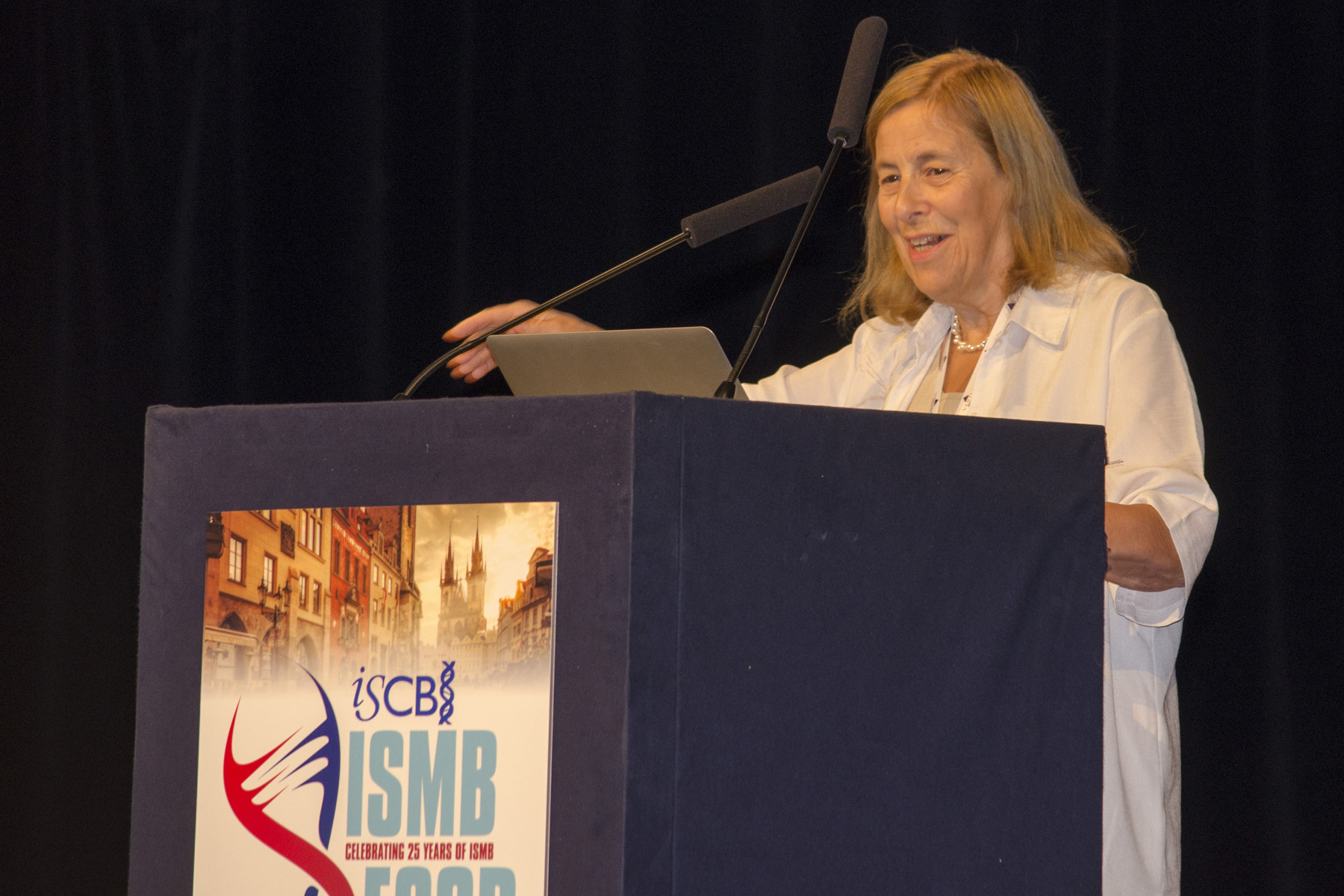 Janet Thornton at ISMB / ECCB in 2017